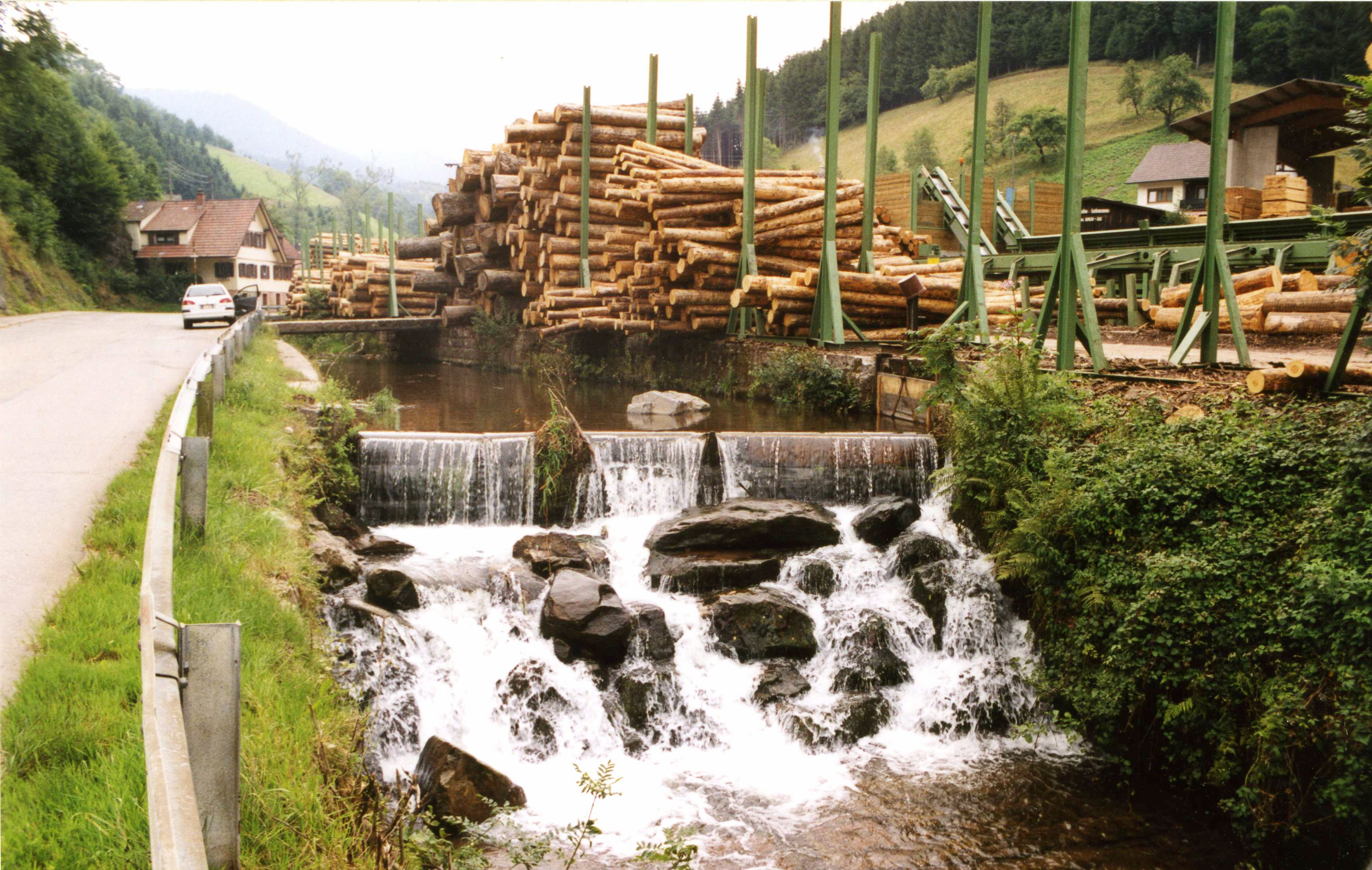 Sawmill between Zell am Harmersbach and Bad Peterstal, Ortenau district, Schwarzwald, Baden. Harmersbach river.